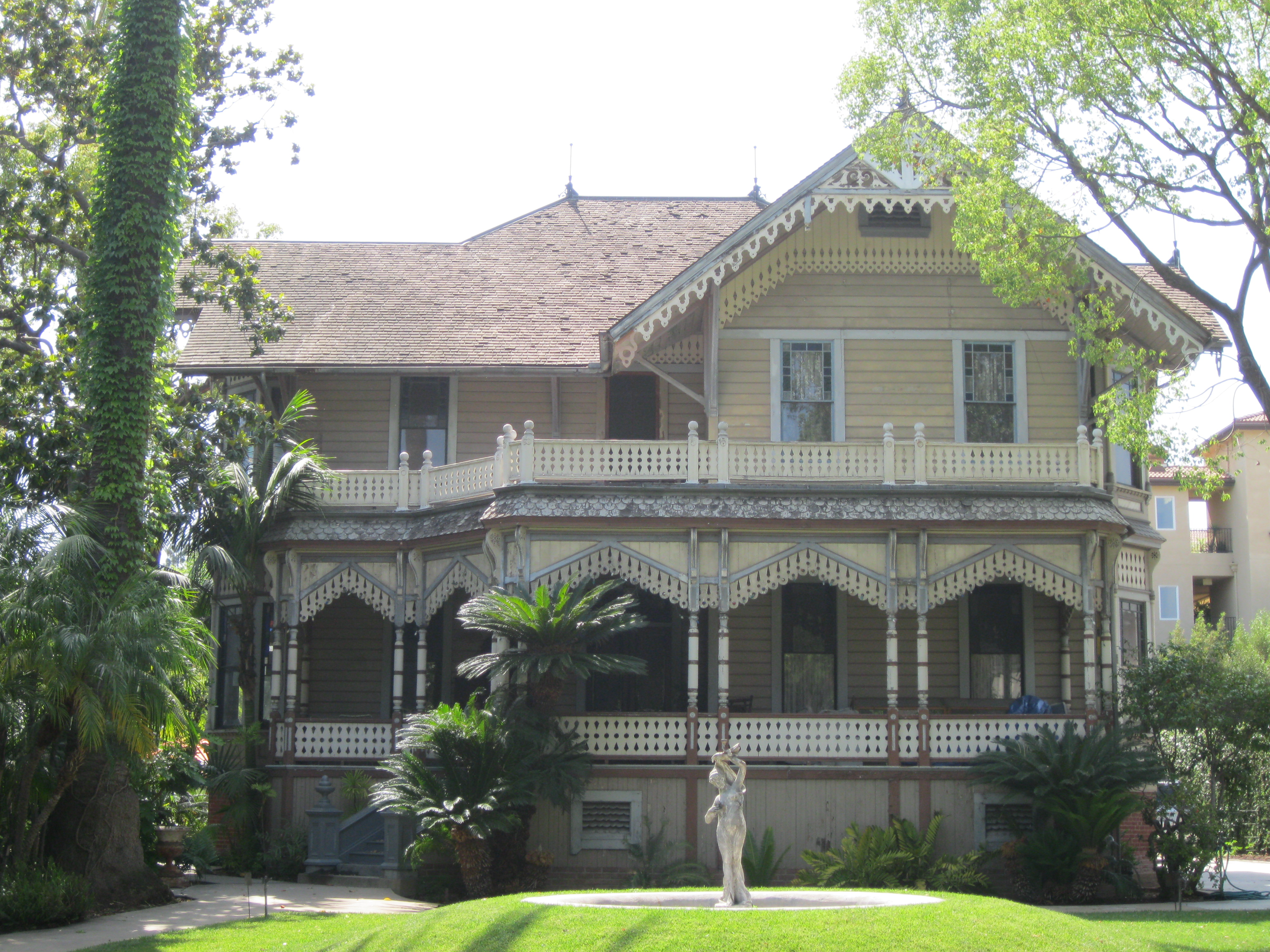 The Theodore Parker Lukens House in Pasadena, California, which is listed on the National Register of Historic Places.